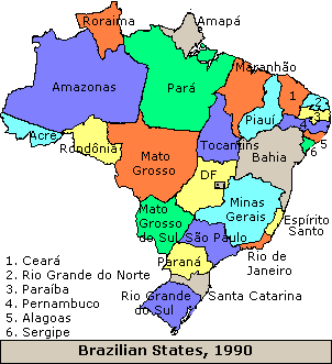 Map of Brazilian administrative division as of 1990. (made by wiki user usuário:Pedro Aguiar